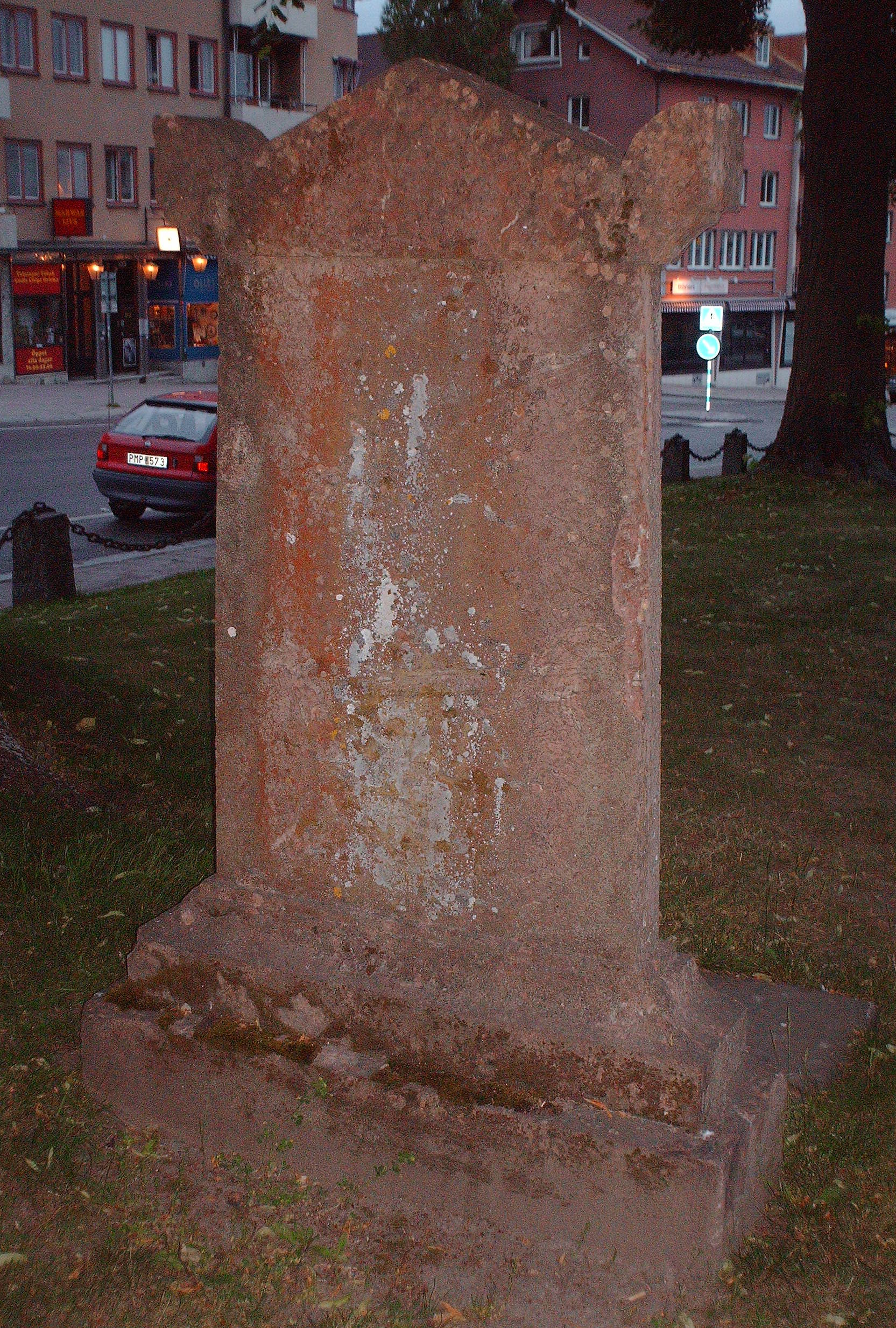 Grave stone of Daniel Fraser, Motala, Sweden